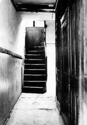 Murder location of Jack the Ripper's second canonical victim, Annie Chapman. September 1888.